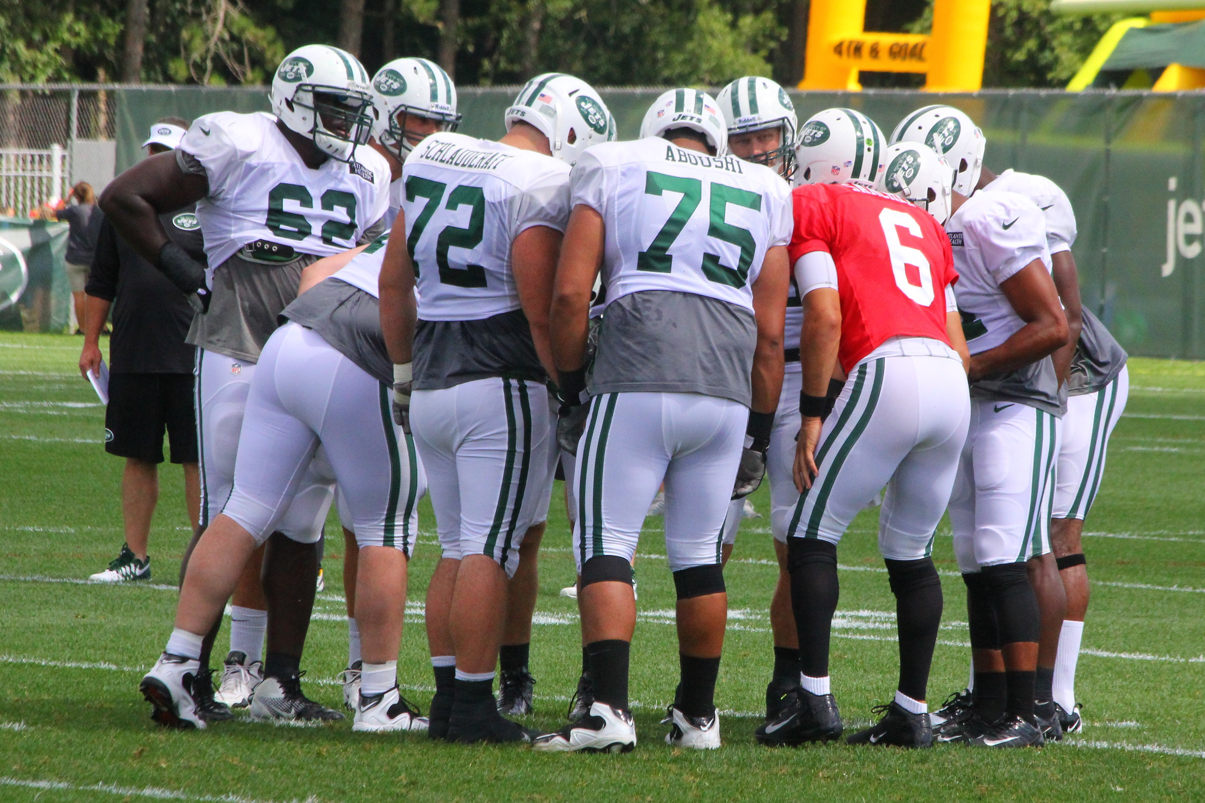 Oday Aboushi at New York Jets training camp.